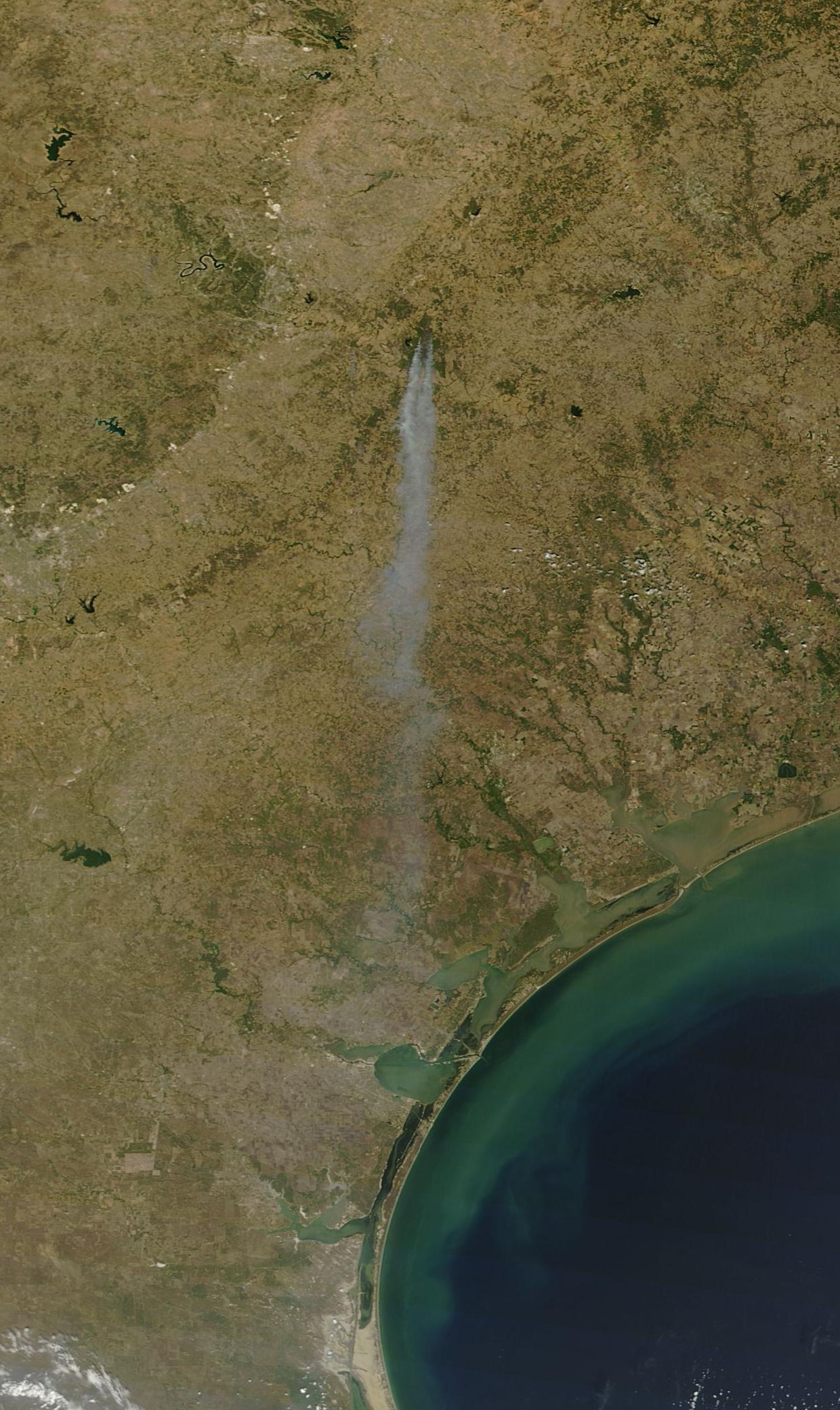 On September 5, 2011, Terra captured this satellite image of the Bastrop Complex as it burned in Bastrop County.